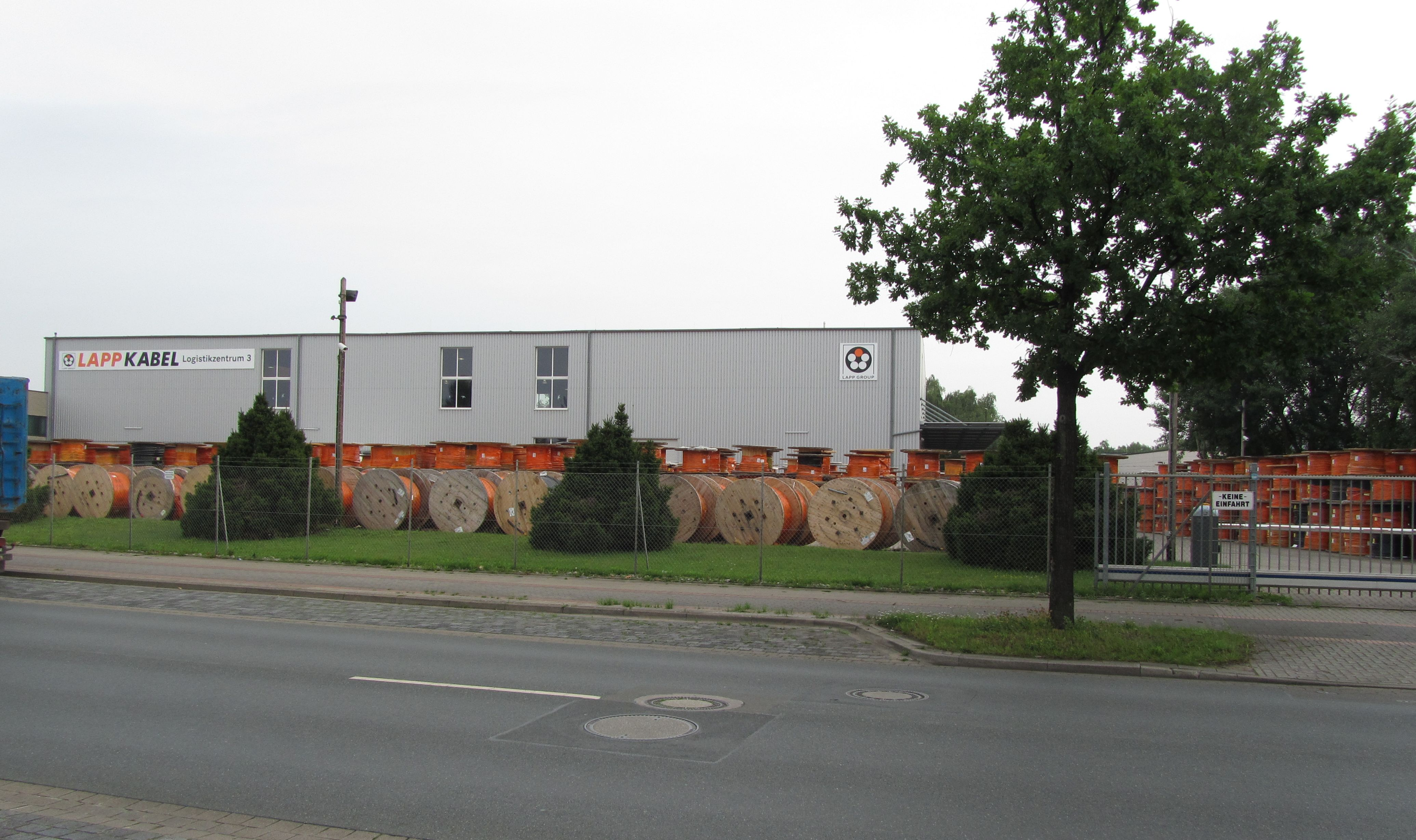 LAPP cable logistics, Hanover, Germany.